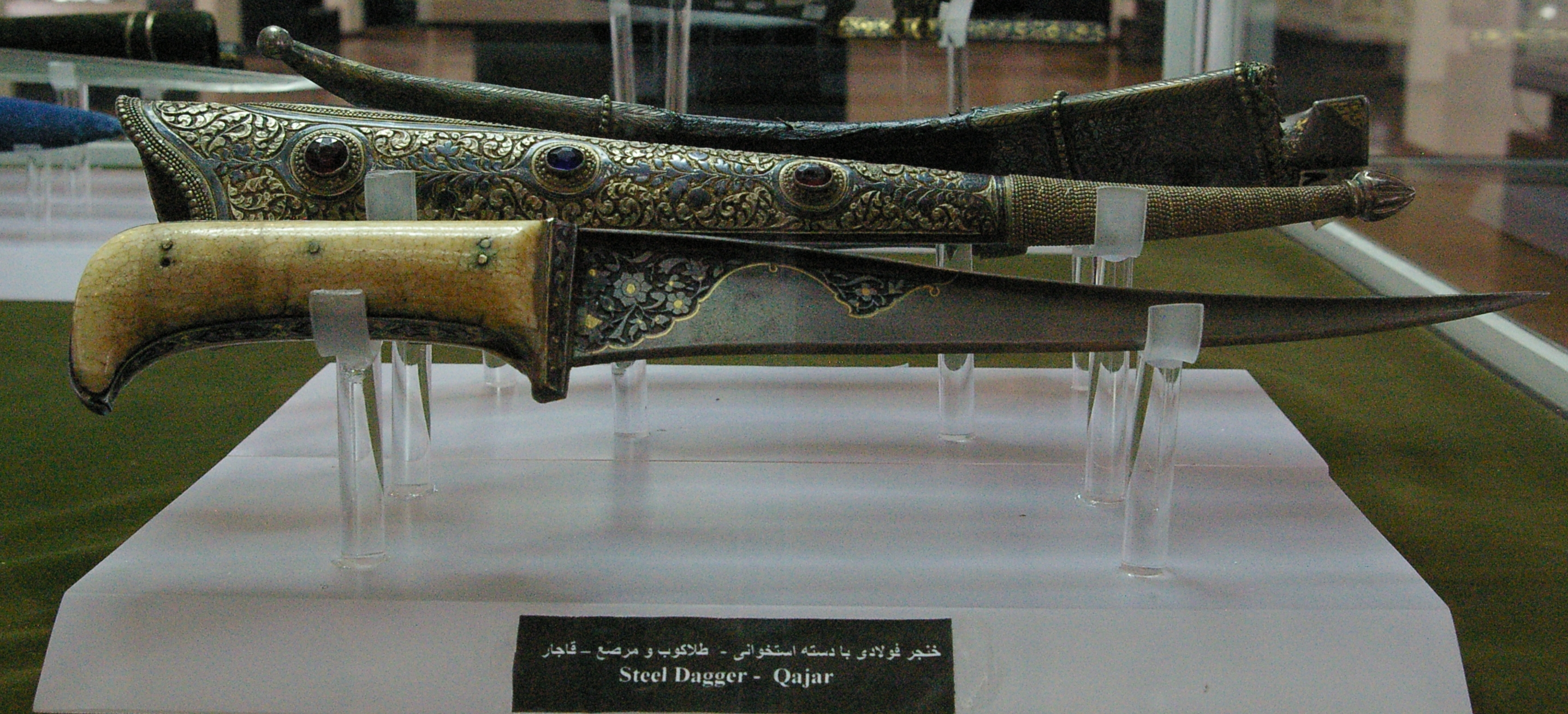 Dagger from the Qajar era (19th. c.). Azerbaijan Museum, Tabriz